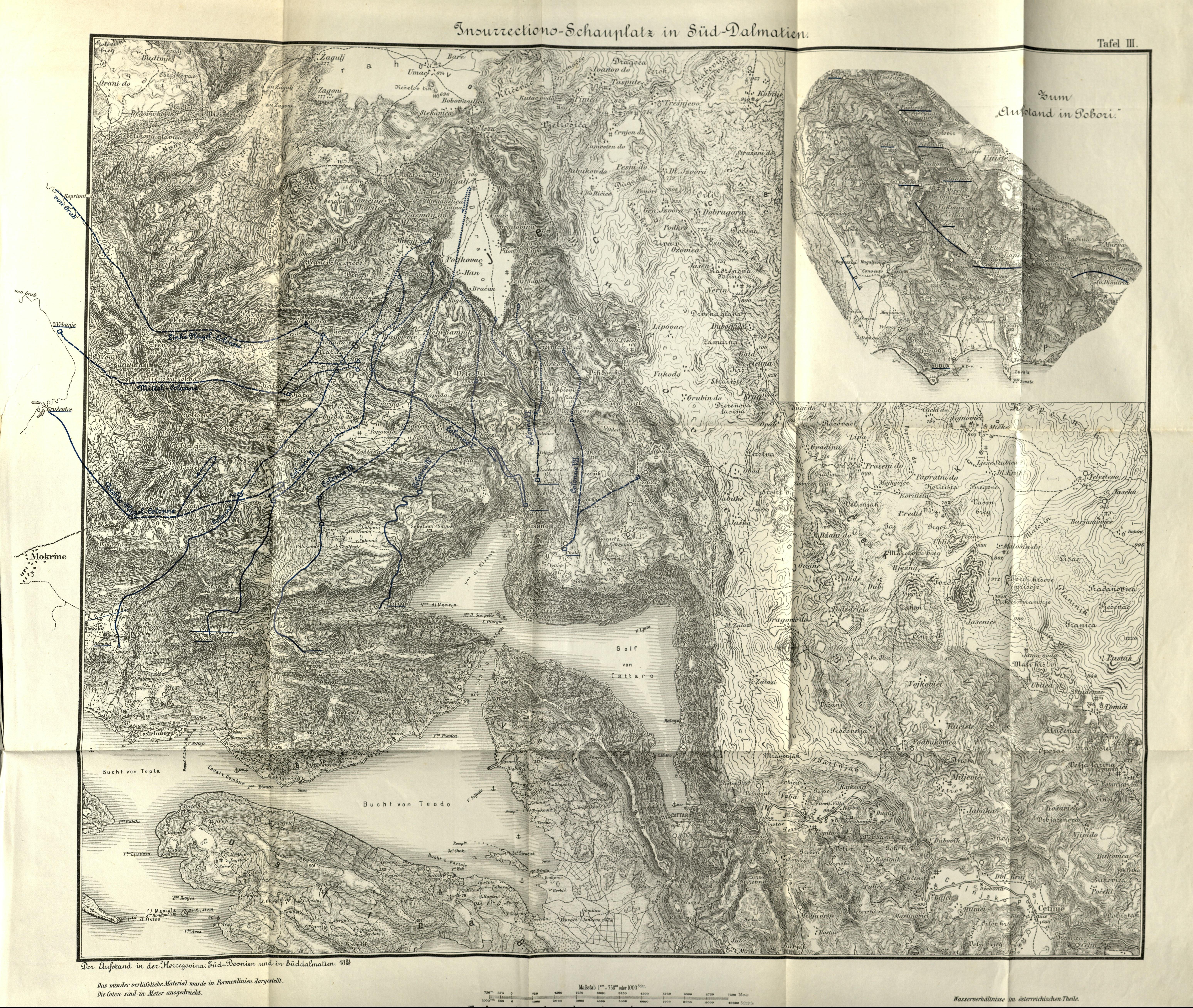 Krivosije insurrection 1882, map as of 1883 from the k.k. Miltary command